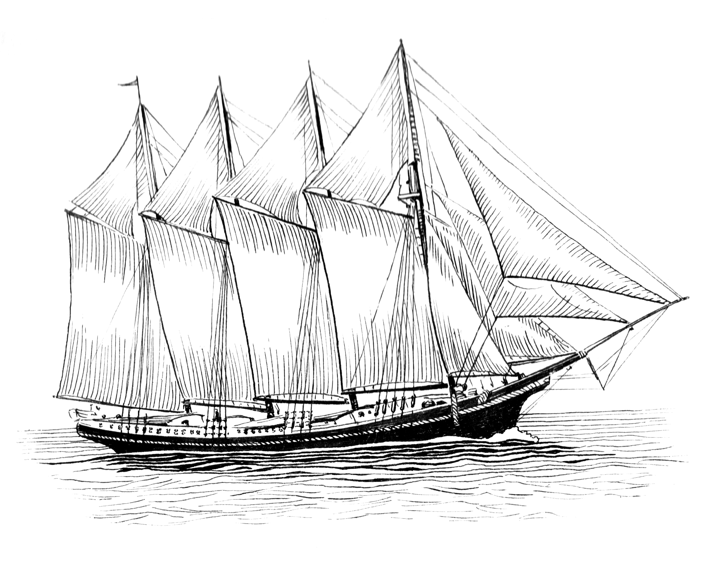 Line art drawing of a schooner